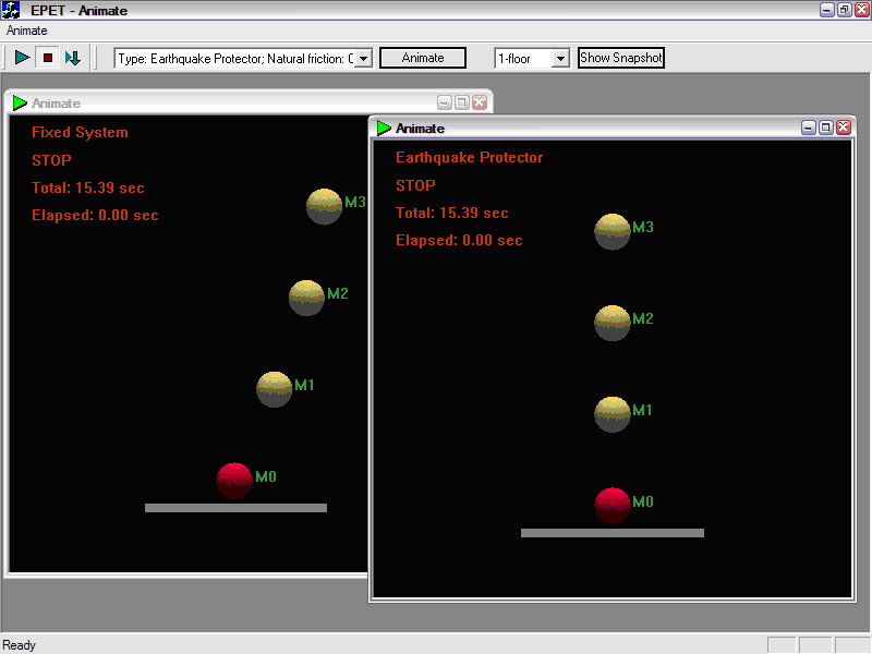 PrintScreen images of concurrent computer models animation using Earthquake Performance Evaluation Tool One. For the online version, called Earthquake Performance Evaluation Tool Online, see [1].